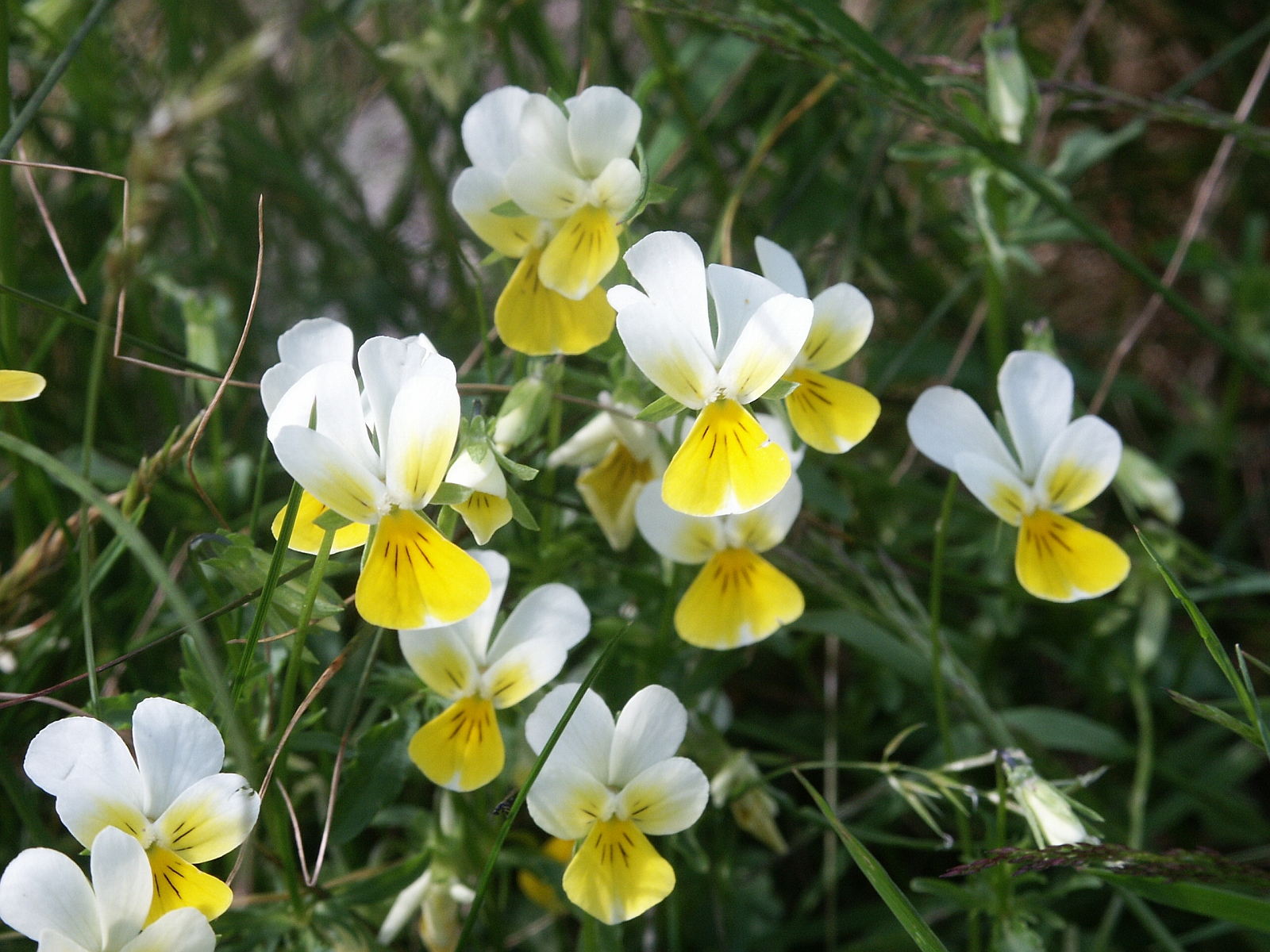 Viola saxatilis, Stubaier Alpen, Italy